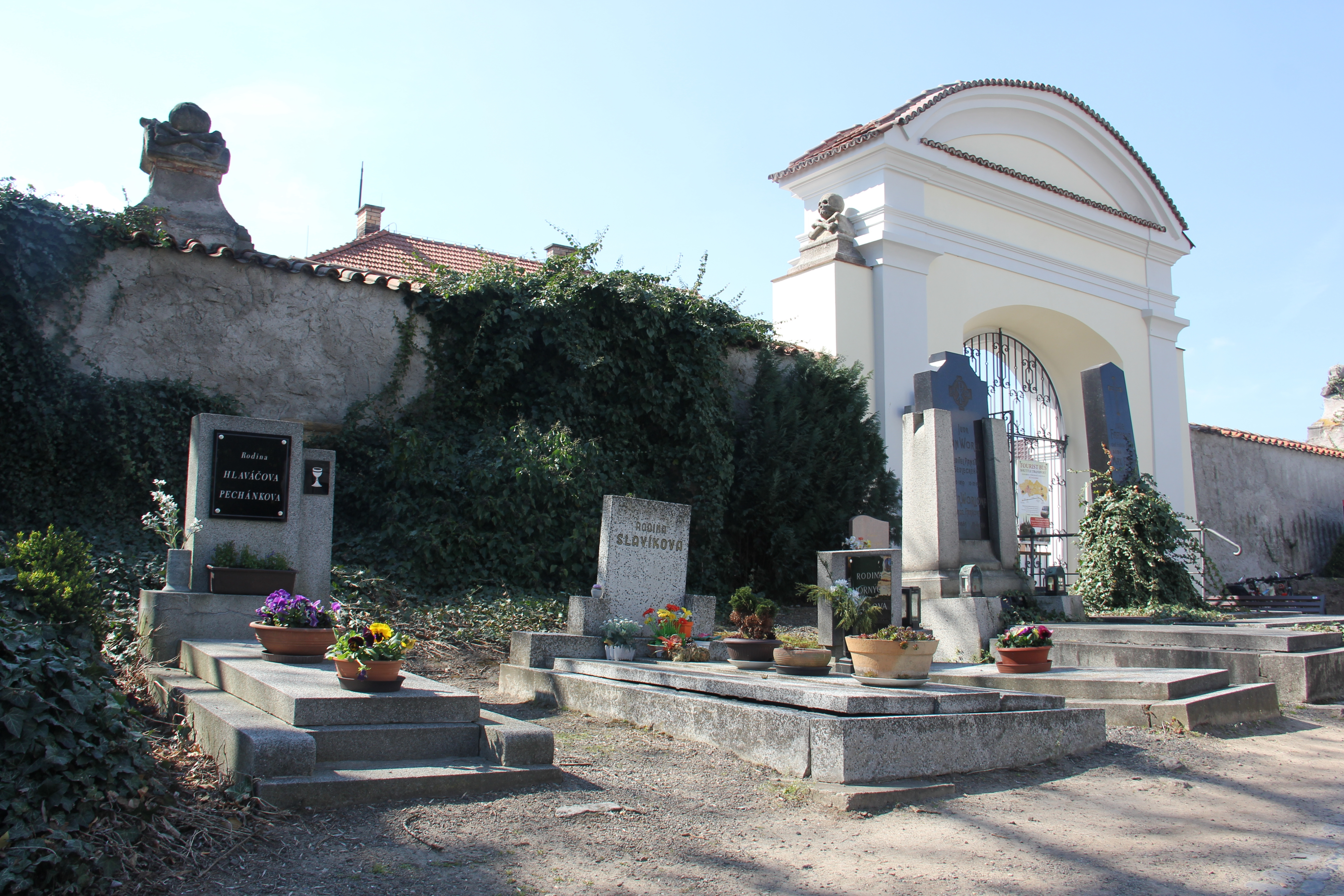 Sedlec Ossuary